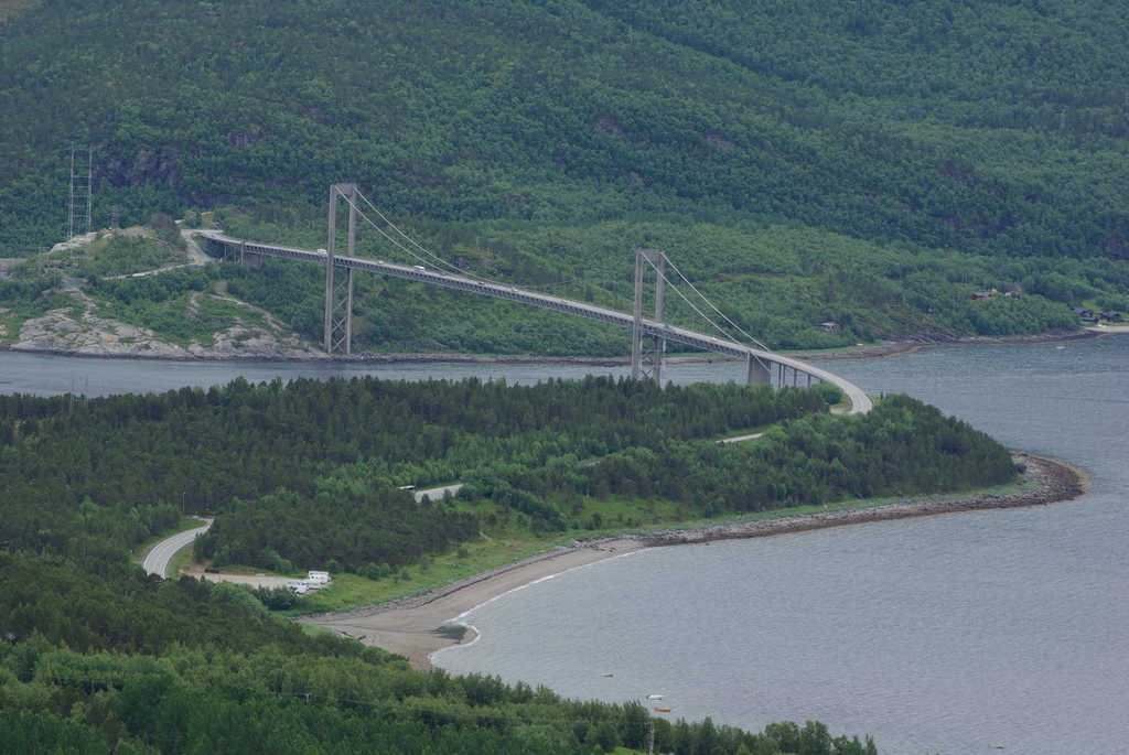 The Rombak Bridge crosses the fjord Rombaken near the town of Narvik in Nordland county in Norway